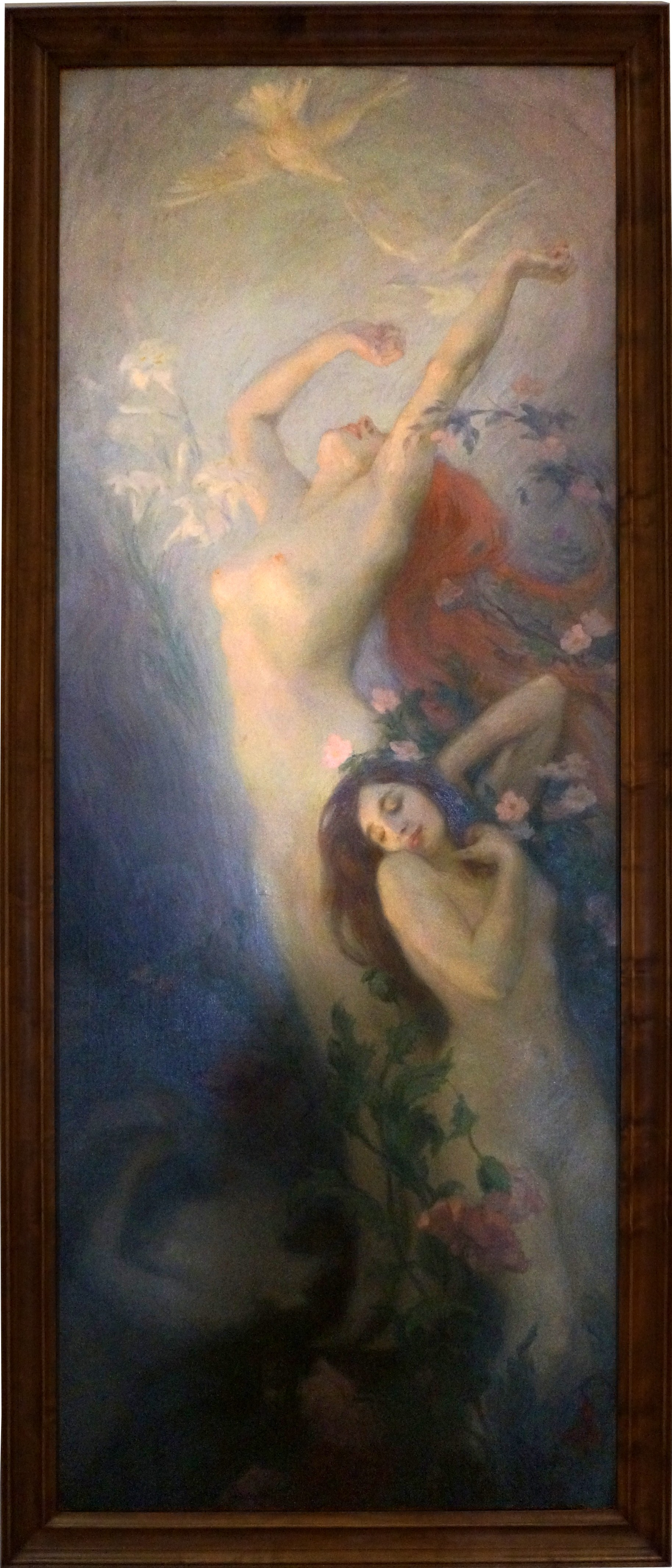 Dawn.